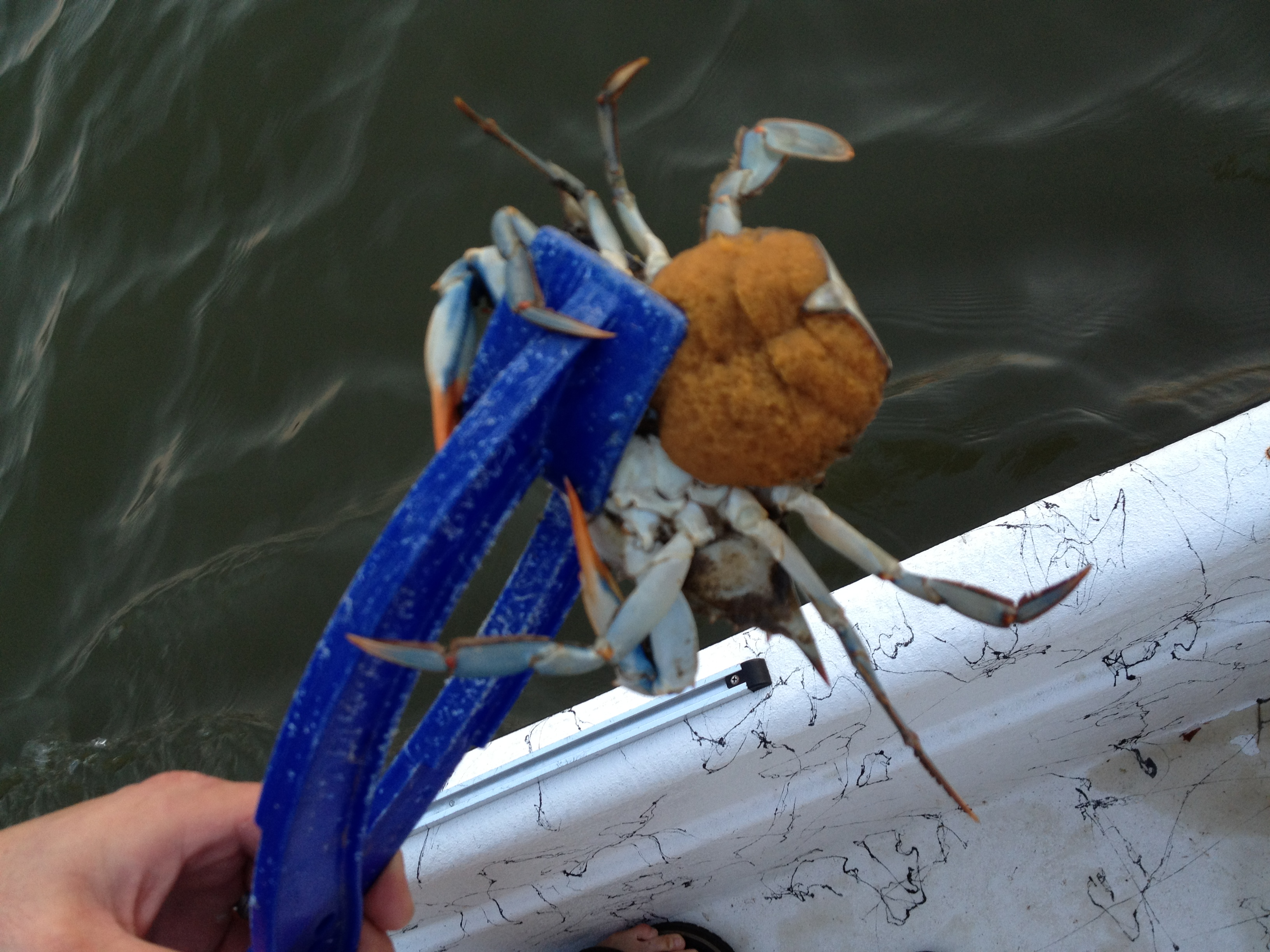 Female blue crab with eggs discovered in the Chesapeake Bay watershed.